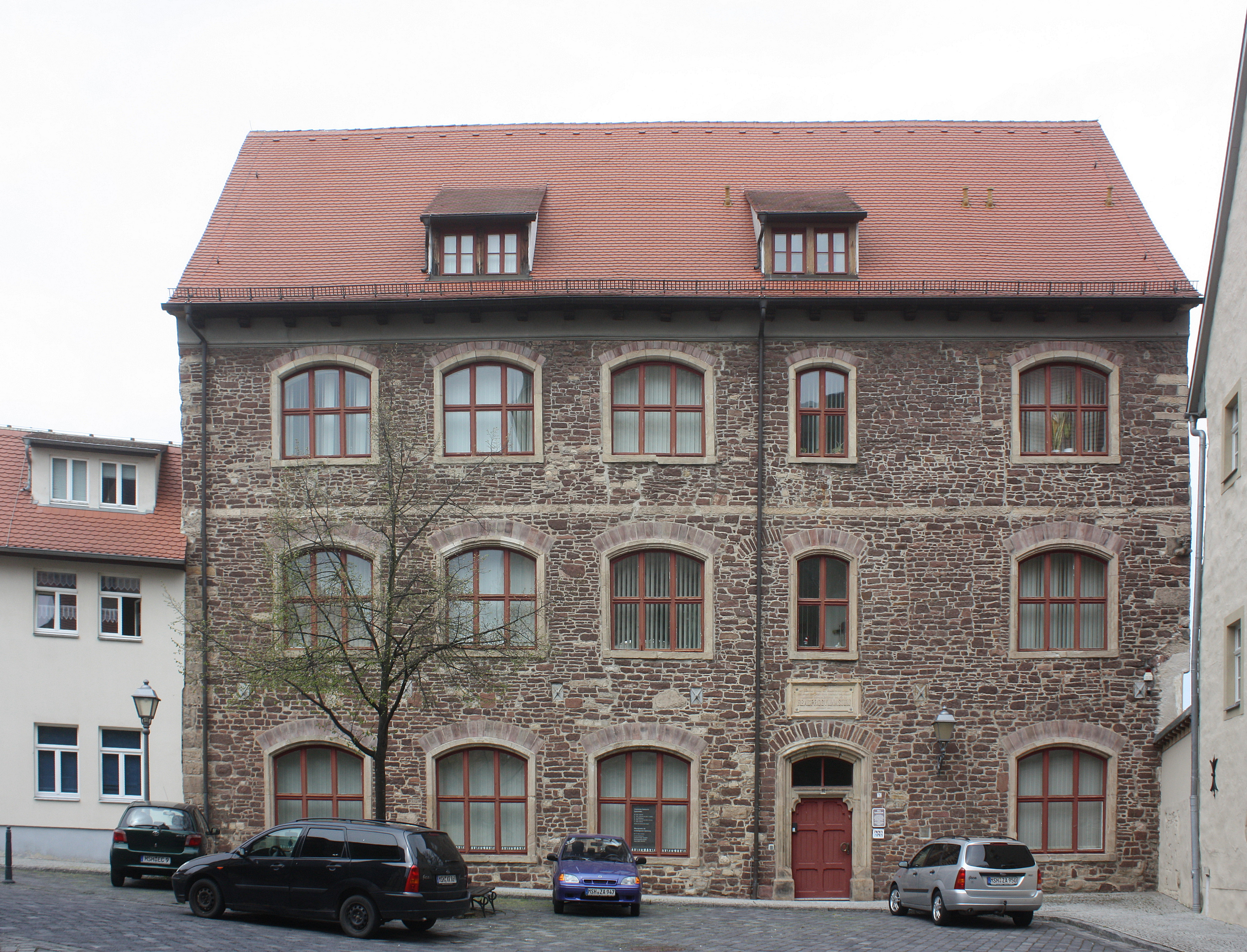 Eisleben, the former gymnasium